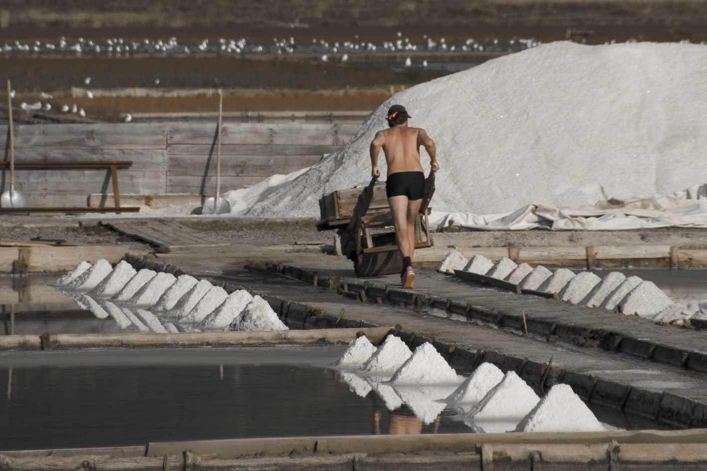 Worker at the salt fields in Strunjan, Slovenia